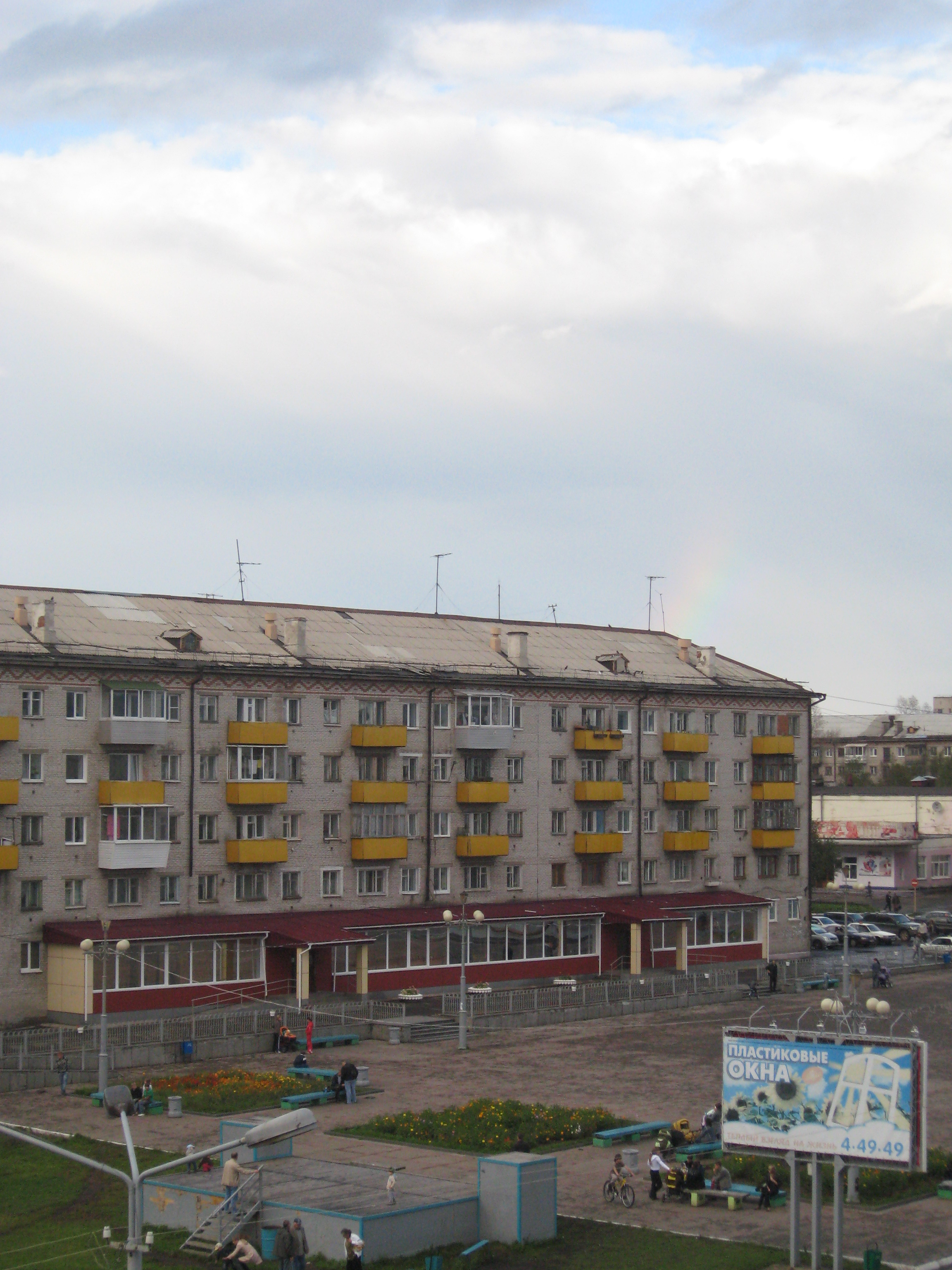 The city of Sovetskaya Gavan. Victory Square